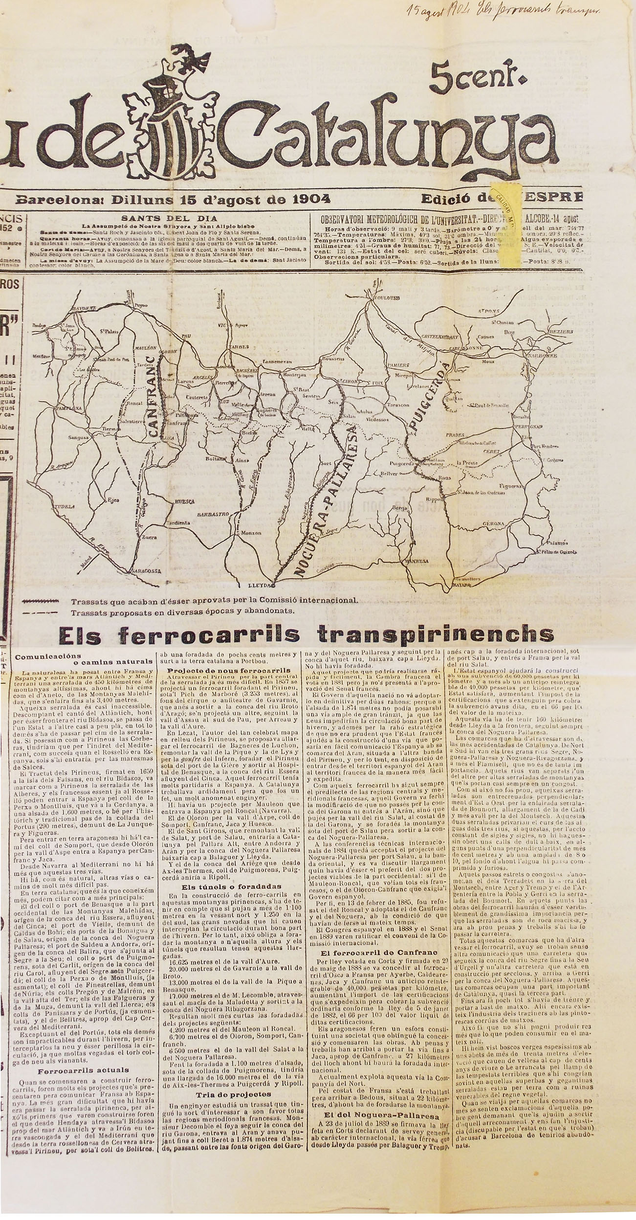 Picture of a newspaper dated year 1904